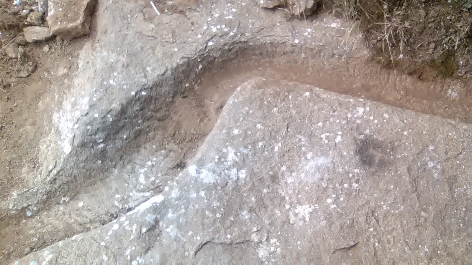 குகையின் தரையில் ஊற்று நீர் வெளியேற செதுக்கப்பட்டுள்ள வடிகால்